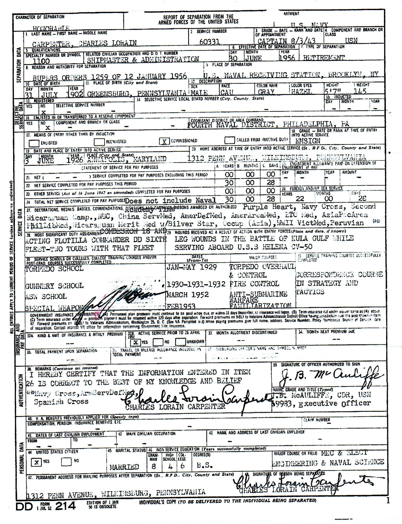 Charles Lorain Carpenter, Rear Admiral USN retired, Copy of his DD-214 discharge document. CLC Family image.